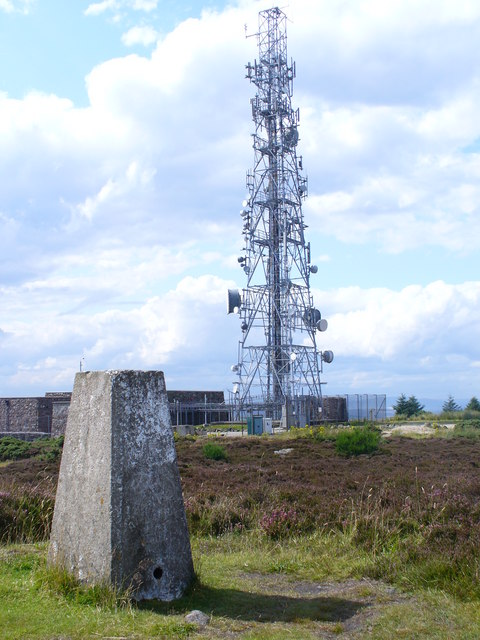 Tower on Brimmond Hill One of several telecommunications towers beside the trig point (265m) on top of Brimmond Hill. The summit is heather moorland.